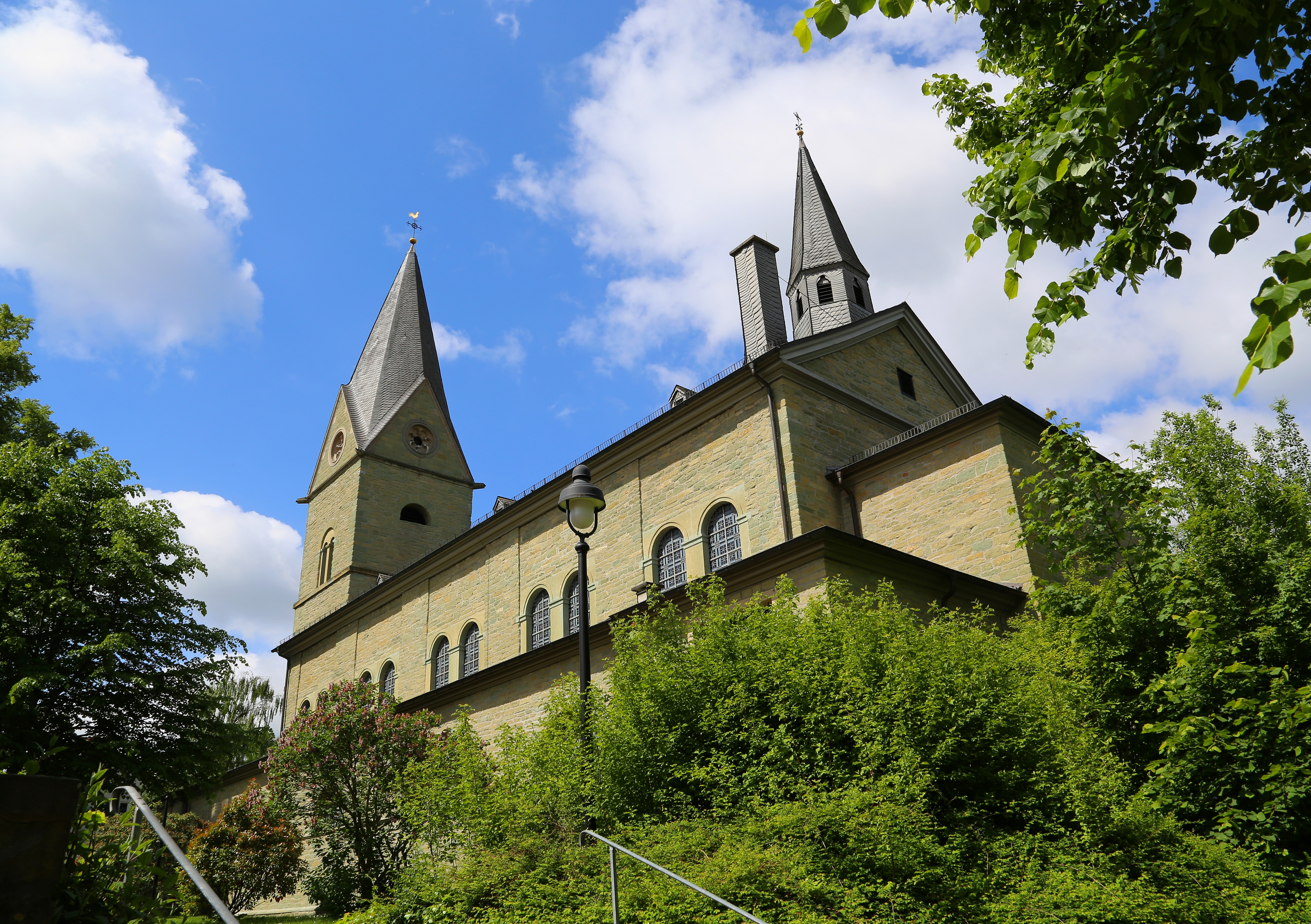 Roman Catholic Parish Church St Cäcilia in Werl-Westönnen, Kreis Soest, North Rhine-Westphalia, Germany.